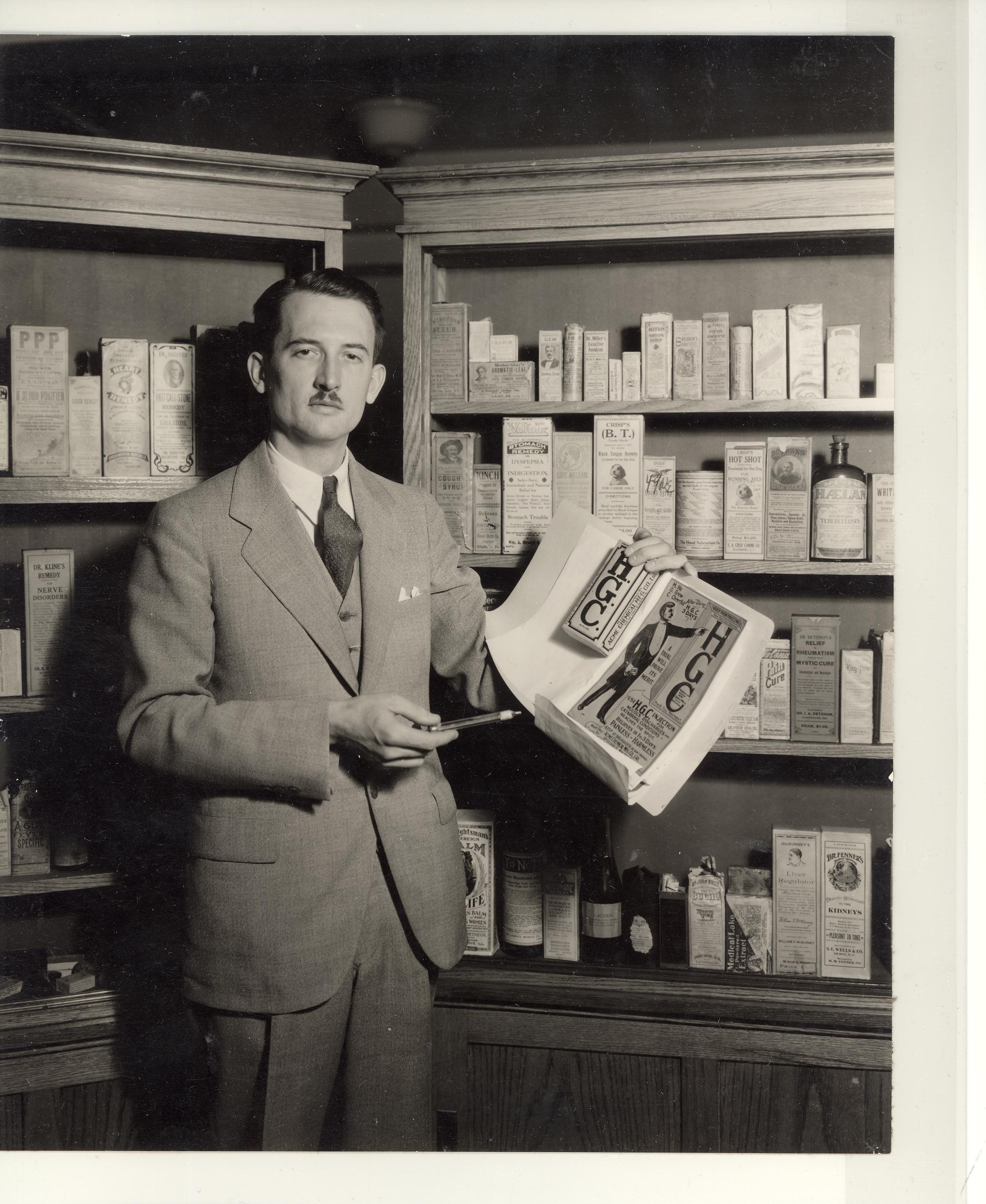 George Larrick was the last investigator to rise through the ranks to become Commissioner (1954-1965). Inspector Larrick was responsible for assembling an exhibit, dubbed by reporters an “American Chamber of Horrors,” which effectively documented the need for what became the 1938 Food, Drug, and Cosmetic Act. The exhibit was credited with helping to persuade Congressional wives, in particular, to seek their husbands’ support for passage of the new federal law, under which the agency still operates. For more information about FDA history visit